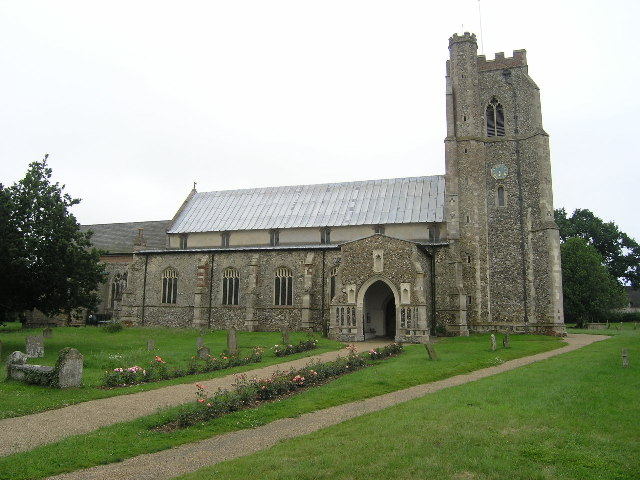 Church of St Mary in Dennington, Suffolk, England. A Grade I listed medieval church.